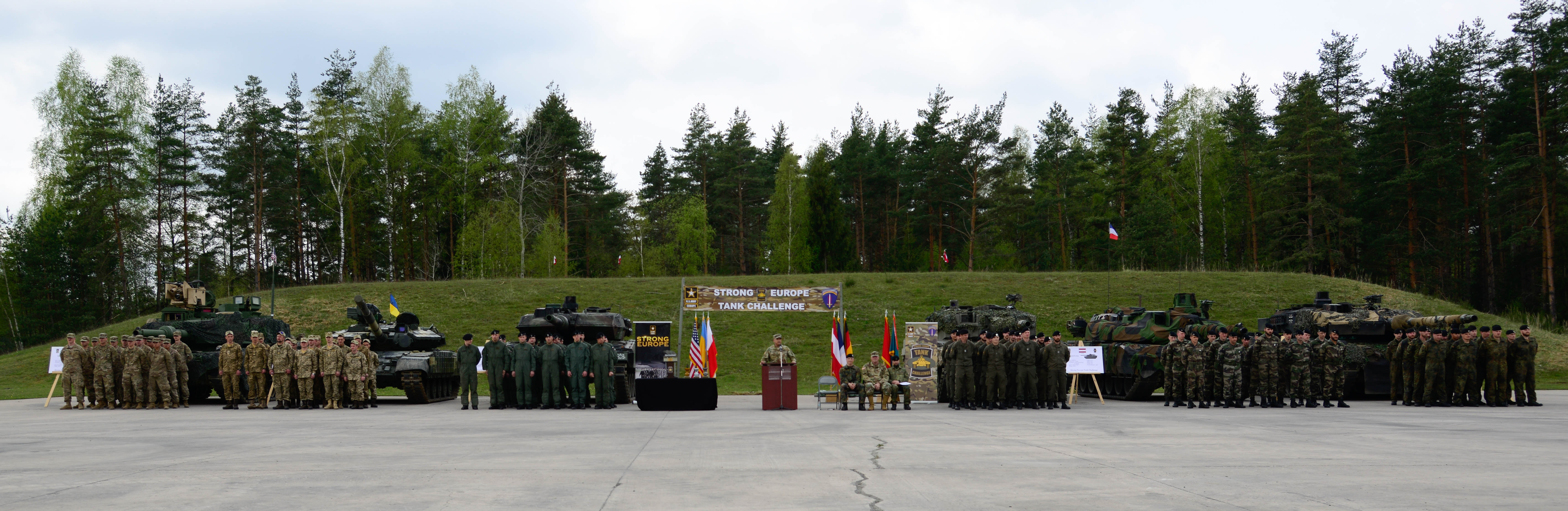 U.S. Army Europe's Strong Europe Tank Challenge 2017 kicked off in Grafenwoehr, Germany, May 7, with an opening ceremony and visit from the Acting Secretary of the U.S. Army, the Honorable Robert M. Speer. The Strong Europe Tank Challenge (SETC) is co-hosted by U.S. Army Europe and the German Army, May 7-12, 2017. The competition is designed to project a dynamic presence, foster military partnership, promote interoperability, and provides an environment for sharing tactics, techniques and procedures. Platoons from six NATO and partner nations are in the competition. (U.S. Army photo by Spc. Emily Houtershieldt)